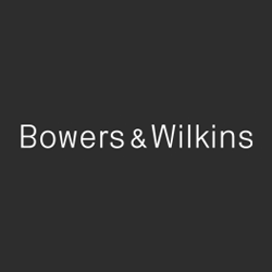 Bowers & Wilkins Logotype for Wikipedia